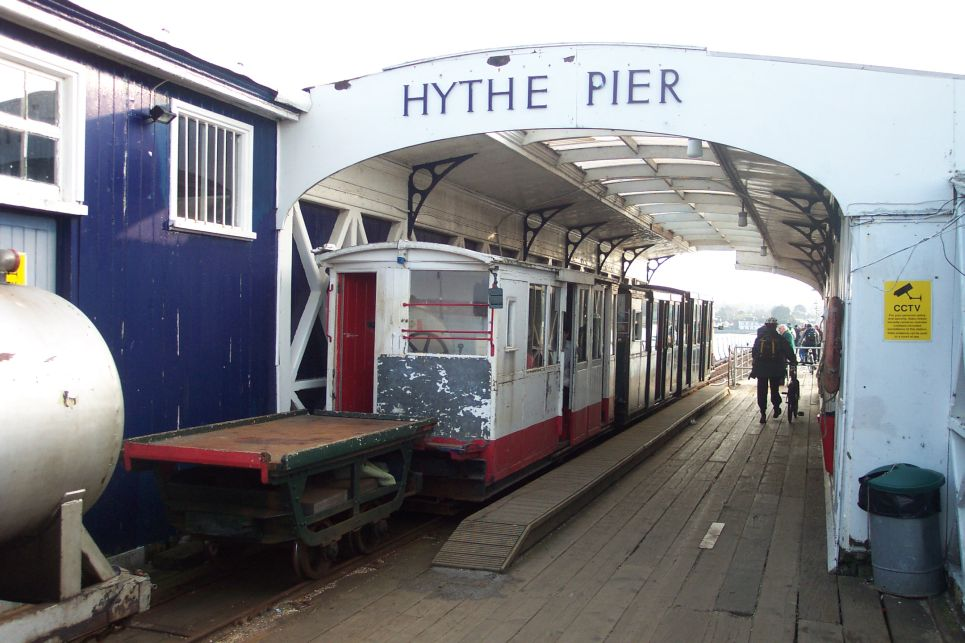 The Pier Head Station, Hythe Pier, in the English county of Hampshire. For more information see the Wikipedia article Hythe Pier, Railway and Ferry.